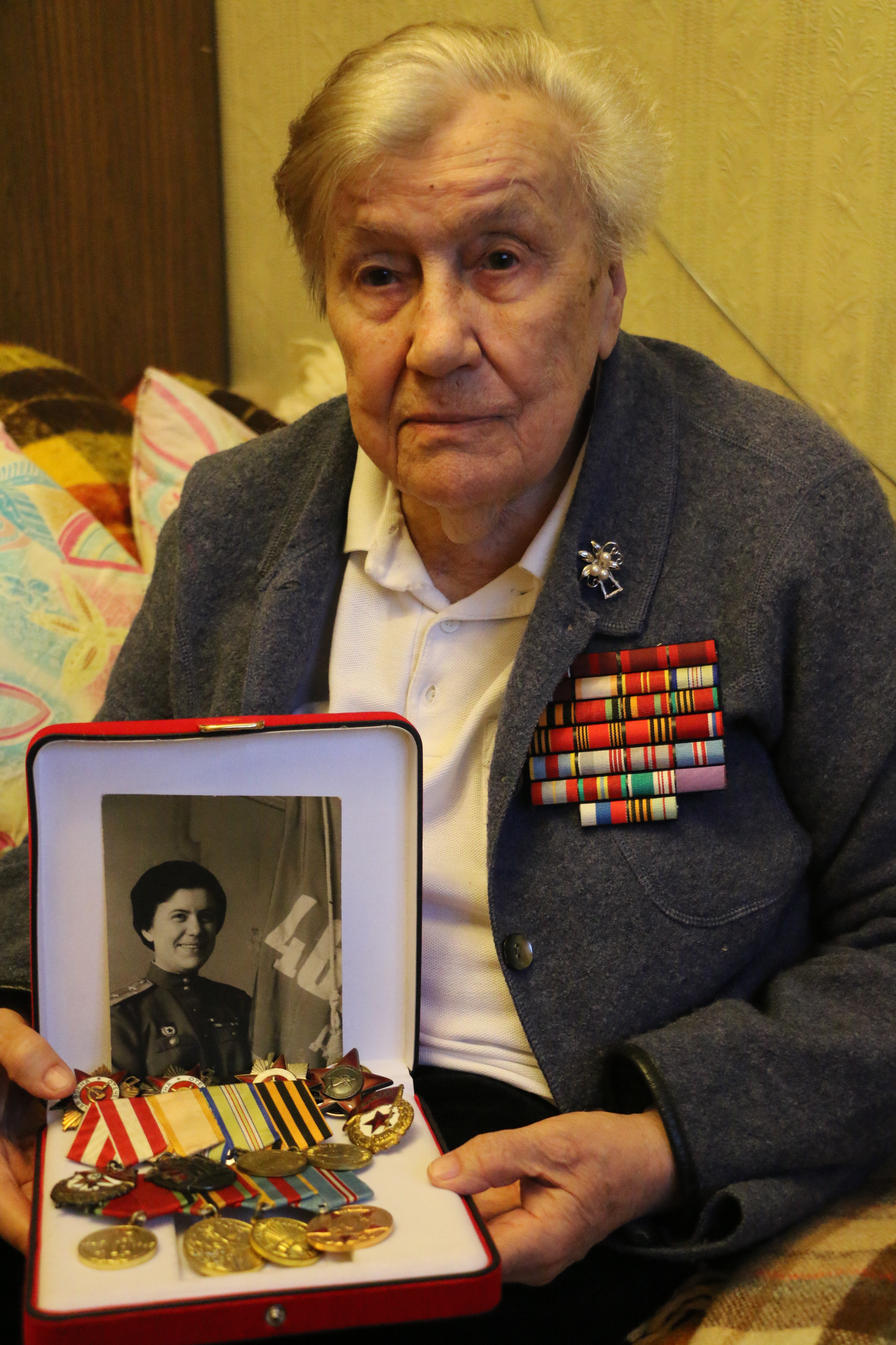 Irina Vyatscheslavovna Rakobolskaya, December 2015